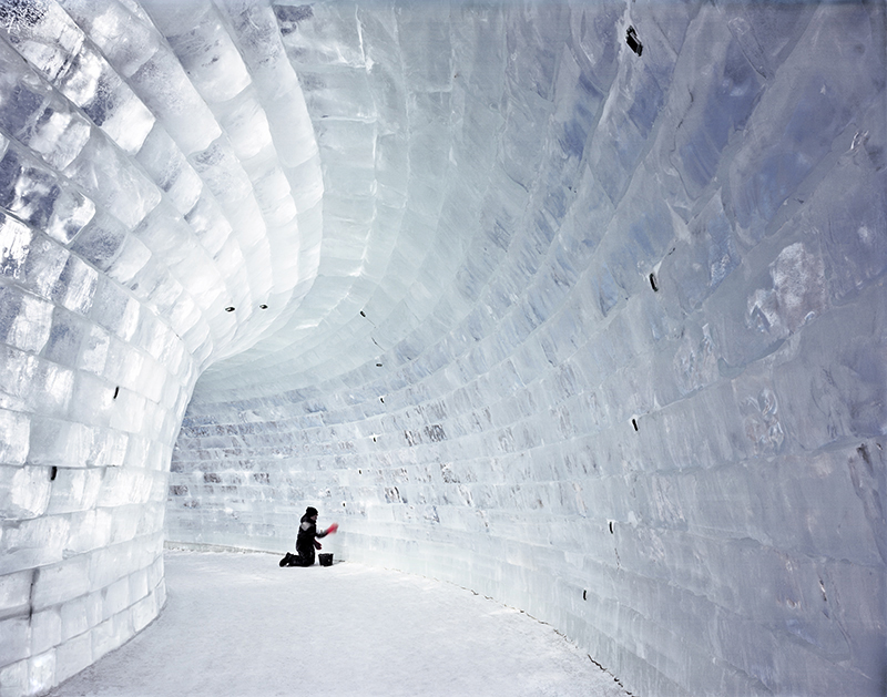 Icetunnel